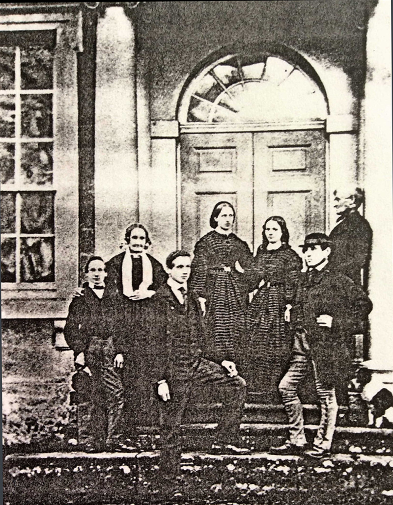 The Bennett family at Nibley House, North Nibley circa 1860